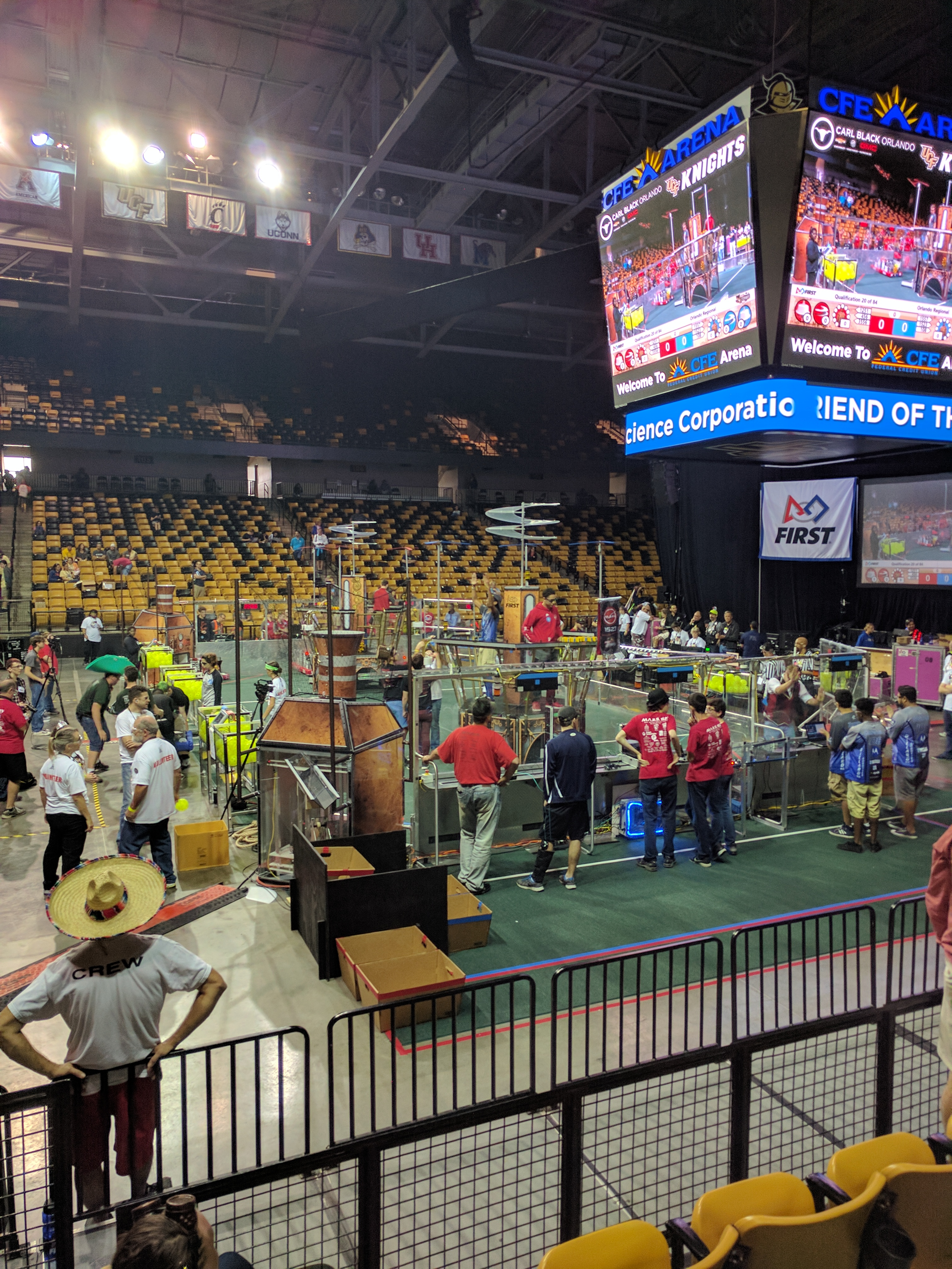 FIRST Steamworks Orlando Regional